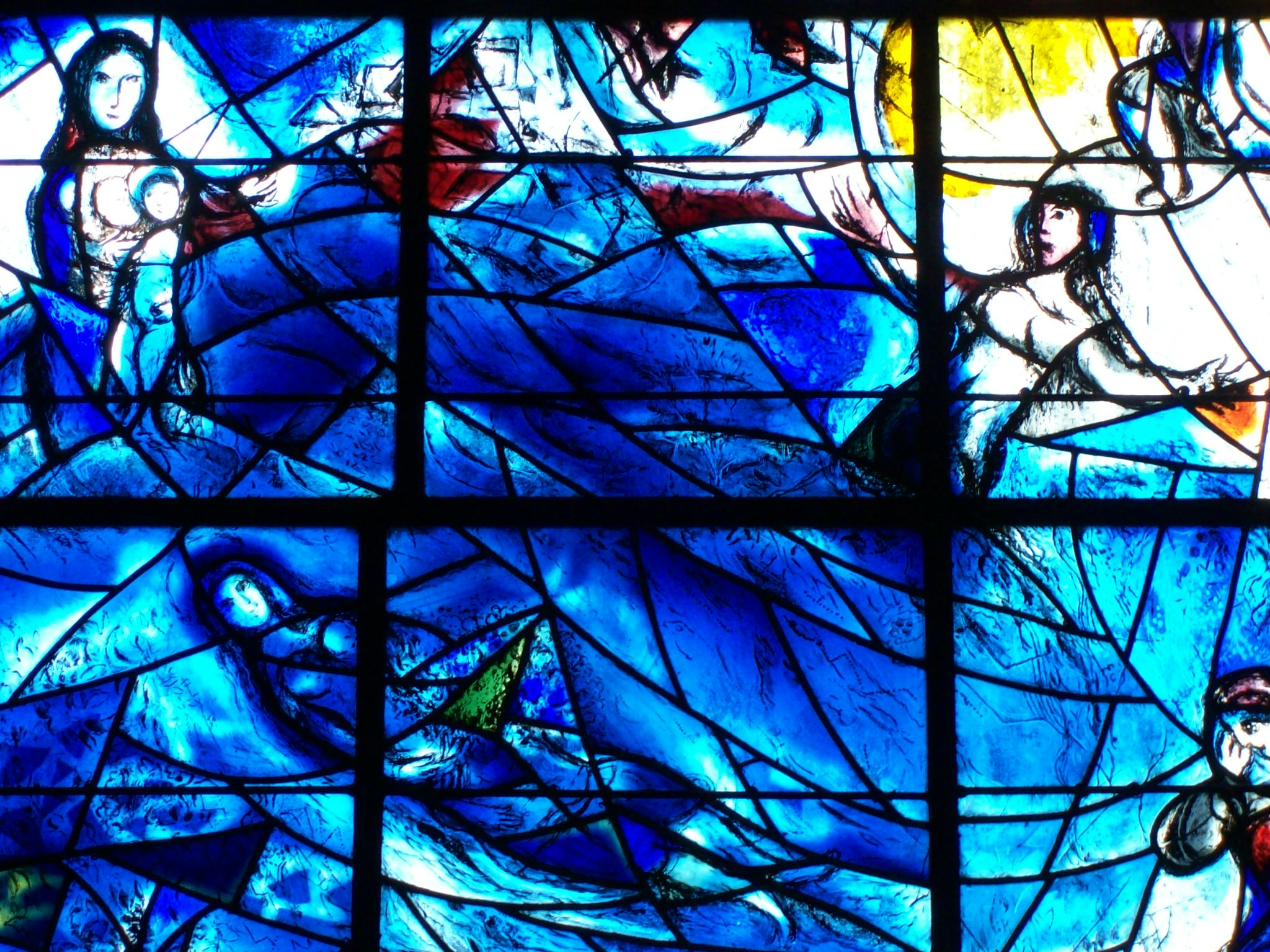 Detail of East Window, All Saints, Tudeley- designed by Marc Chagall